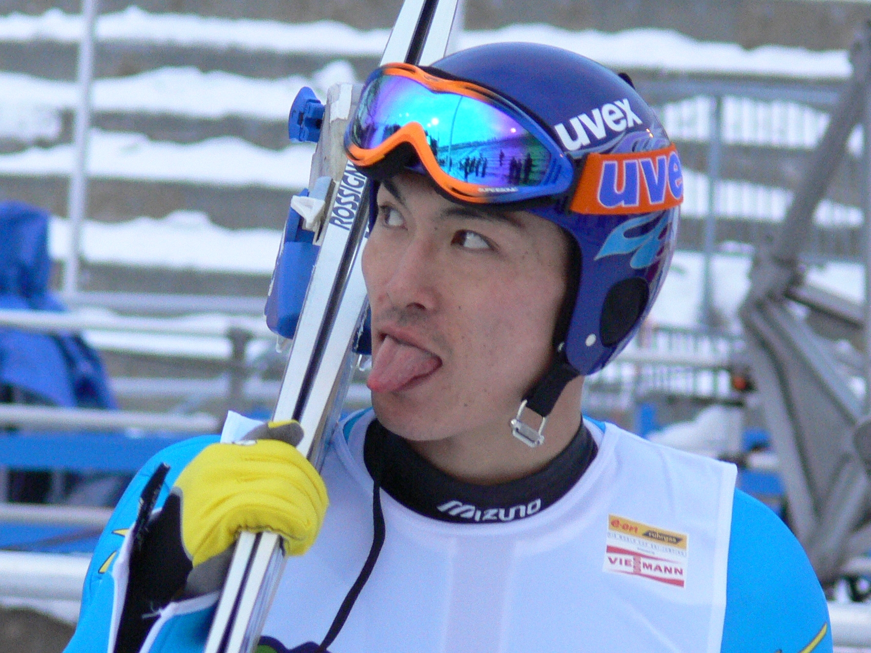 Akira Higashi at World Cup in Holmenkollen, Norway